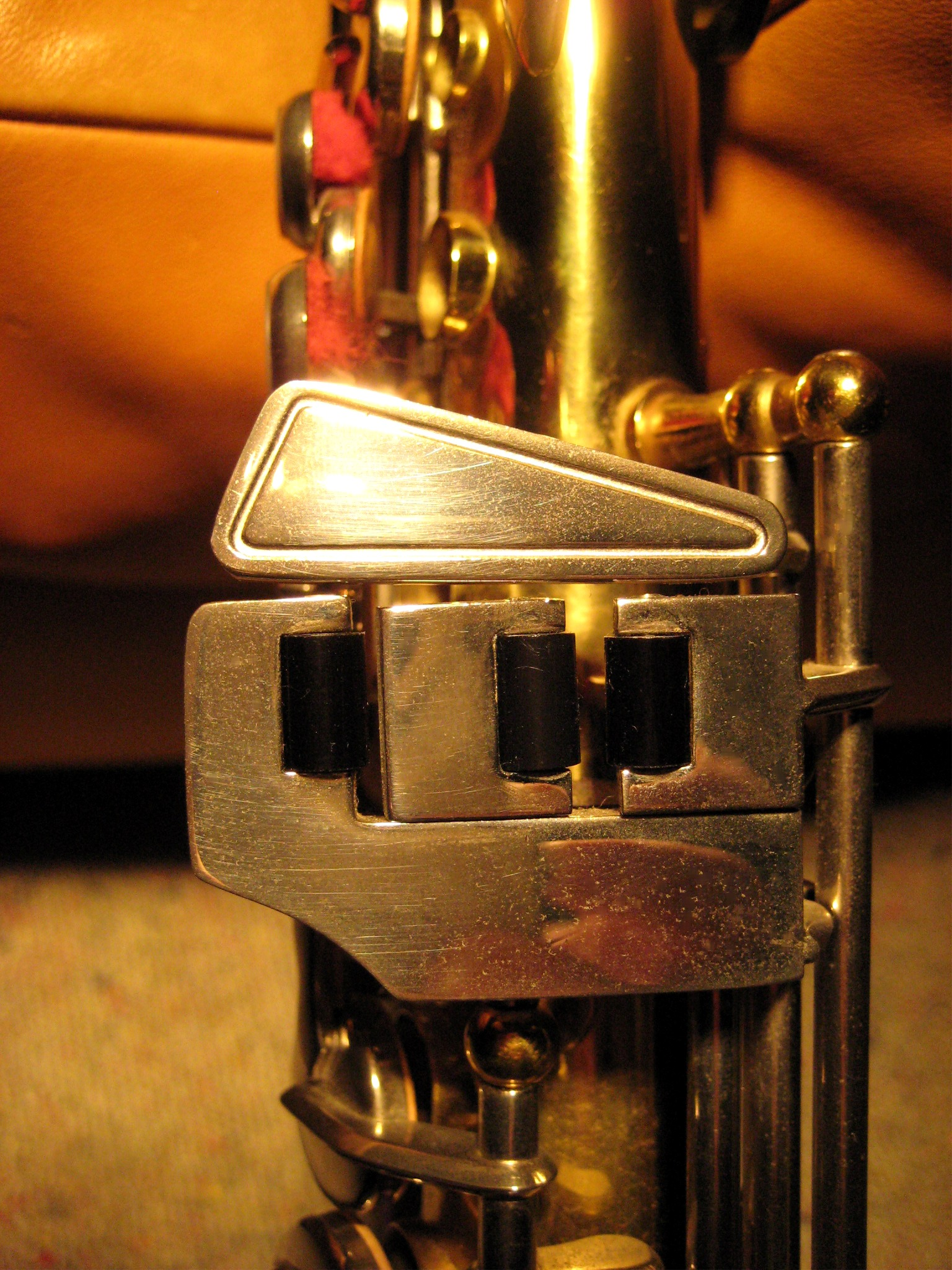 Part of soprano saxophone